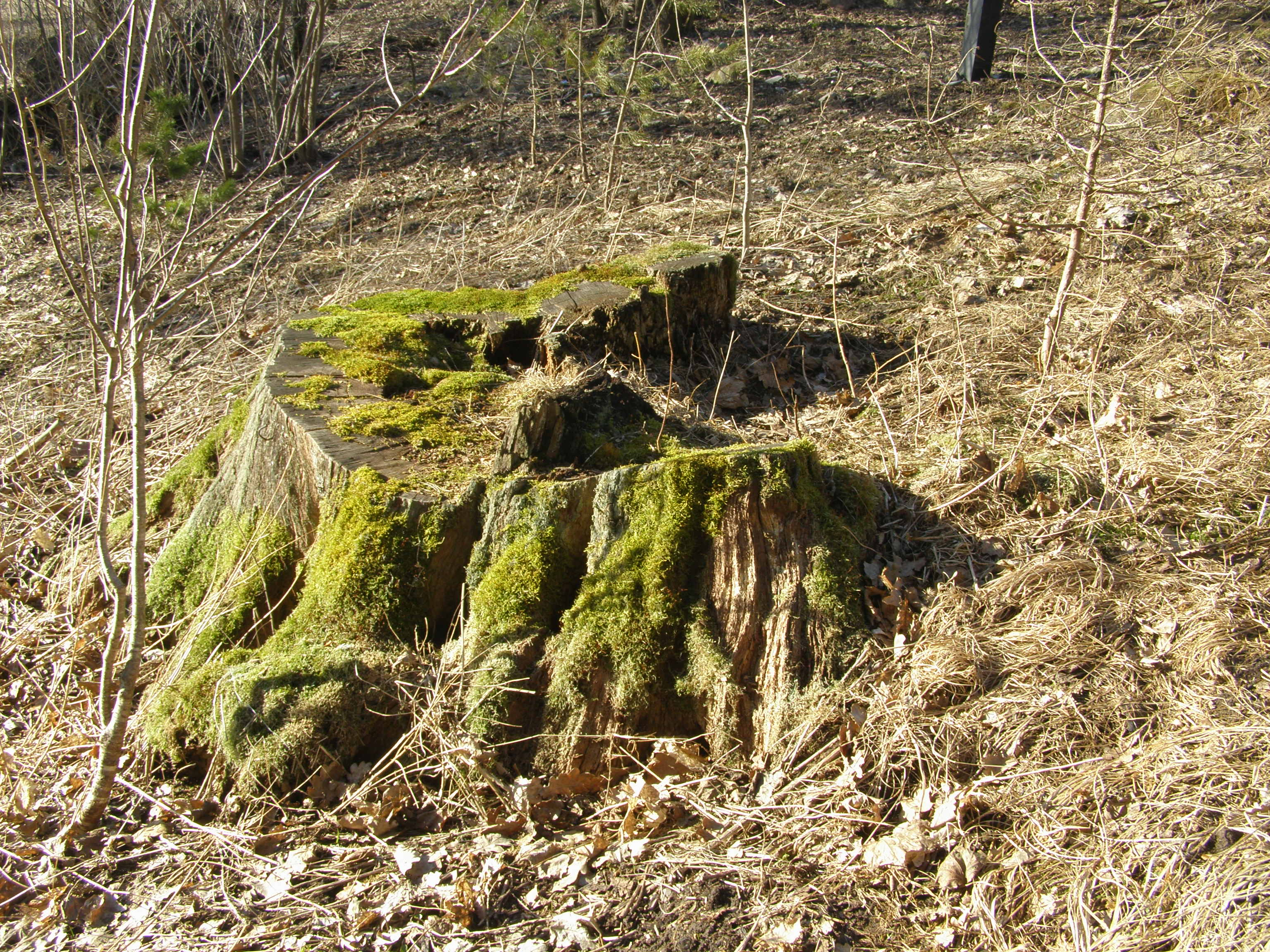 Alkas, Kretinga district, Lithuania